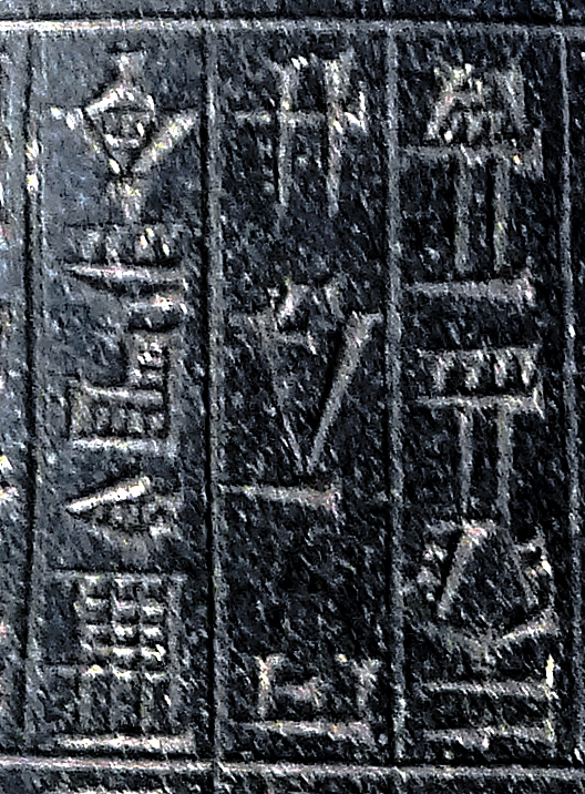 Statue of Gudea.